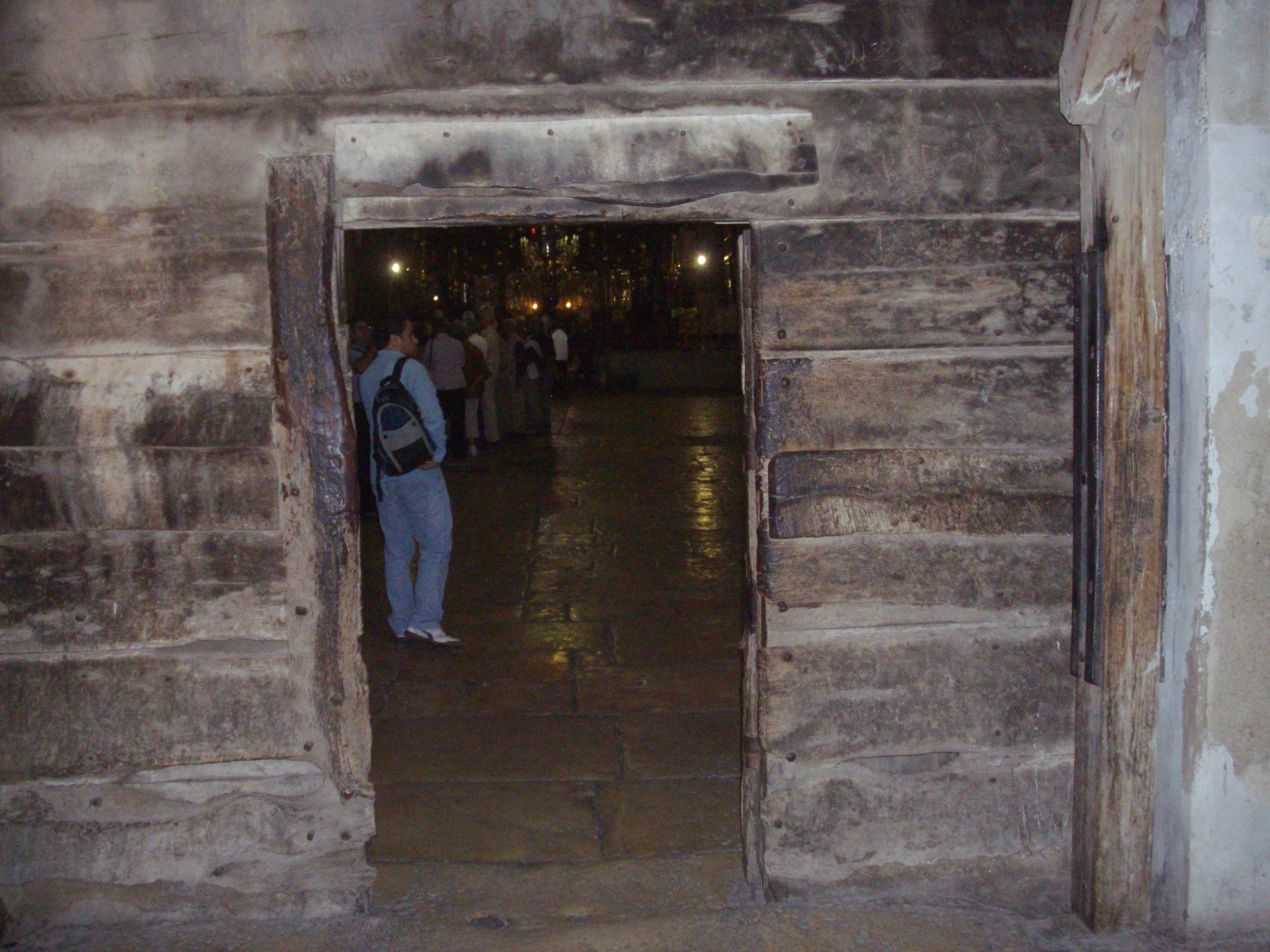 Insignificant looking and small main Entrance to the main Basilica of "Church of the Nativity",Christianity's oldest and holiest church(Wednesday 29-10-2008)